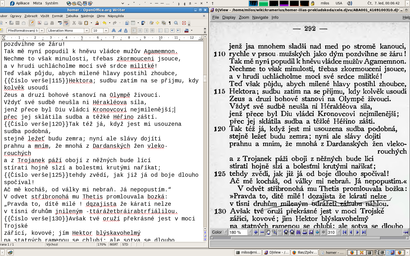 Milda's own proofreading while preparing document (18th book of Homer's Iliad translated by Antonín Škoda here; both ancient Greek original text and Czech translation are PD-old) for Czech Wikisource. Software used: GNU/Linux operating system (Fedora distribution), Gnome desktop, OpenOffice Writer in the left, Djview3 in the right, Character Palette applet in the top panel for inserting of special characters.